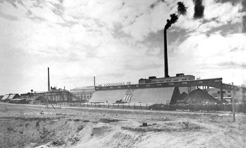 Steel factory Oy Vuoksenniska Ab in Imatra, Finland in 1937